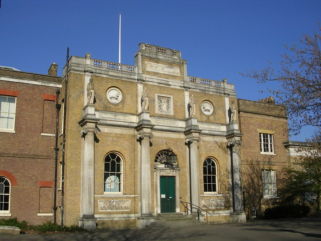 Pitzhanger Manor Following its completion in 1804, the Sir John Soane used Pitzhanger Manor as a weekend retreat and a place of entertainment until he sold it in 1810. In 1843 it became home to the daughters of Britain's only assassinated Prime Minister, Spencer Perceval. In 1901, the building was sold to Ealing District Council and extended to become a public library. In 1985 it was converted into a museum.